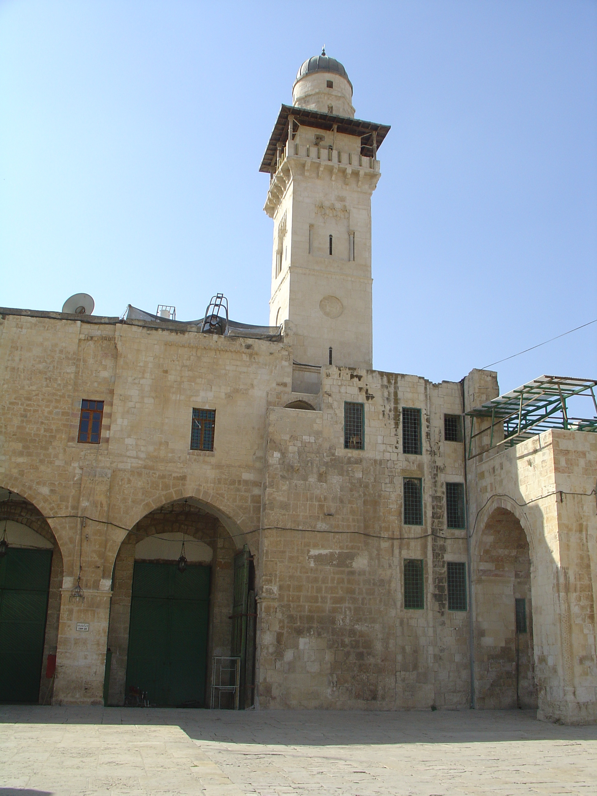 Al-Aqsa Mosque